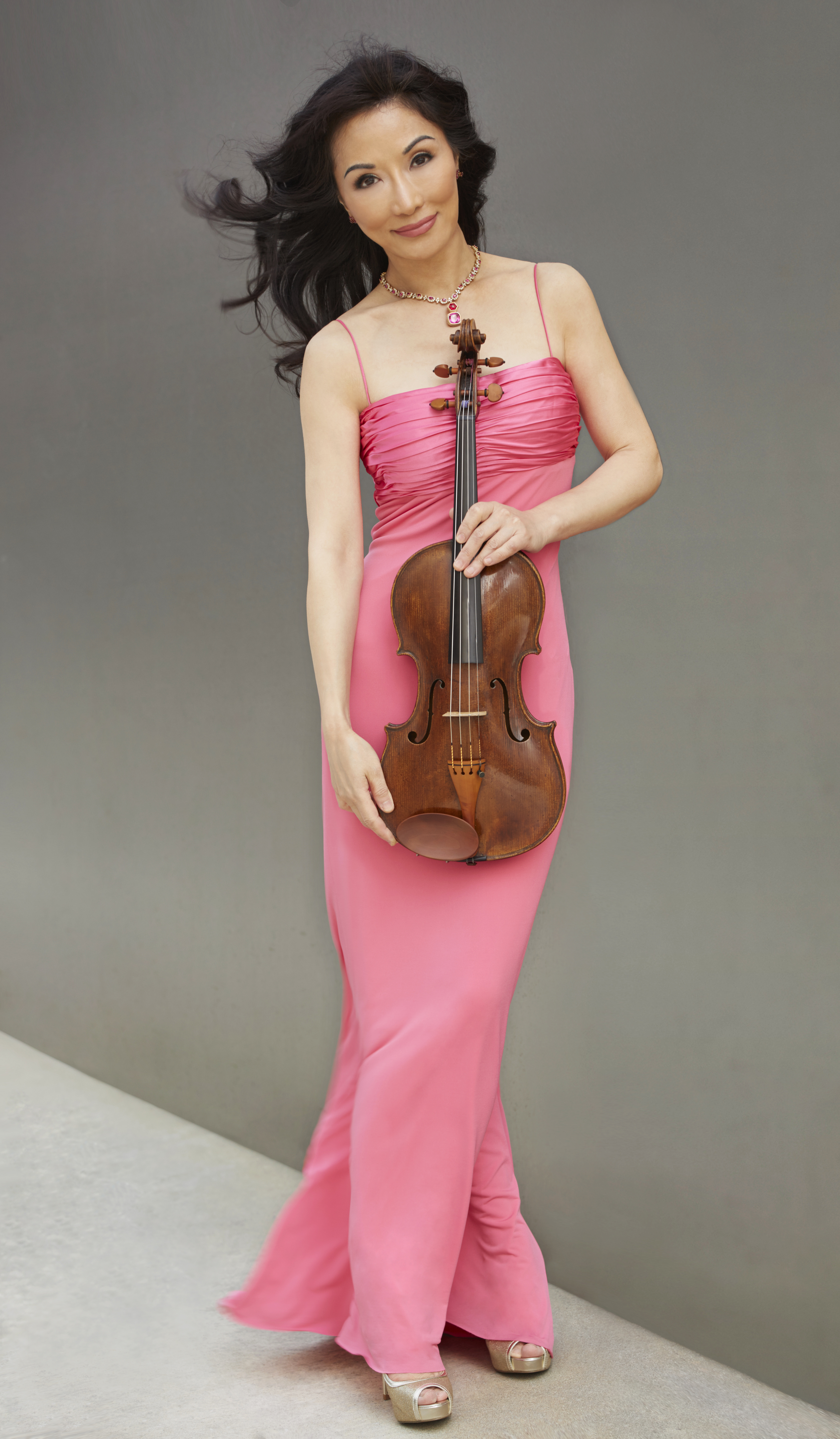 hong-mei xiao image#1